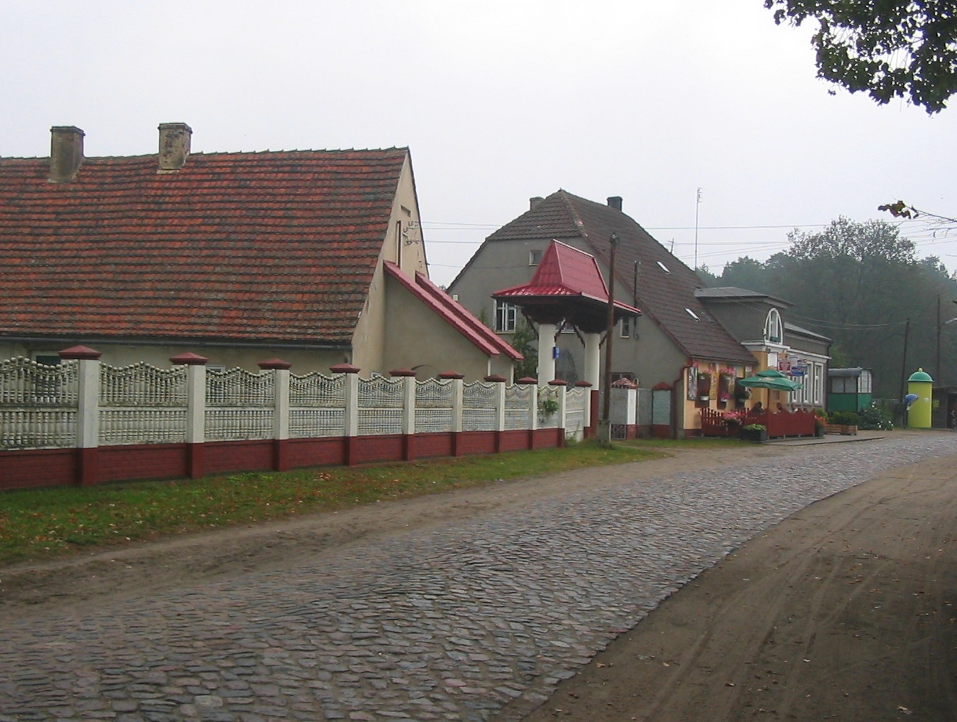 Sucha district of Zielona Góra, Poland Author:Mohylek 11:44, 6 October 2006 (UTC)